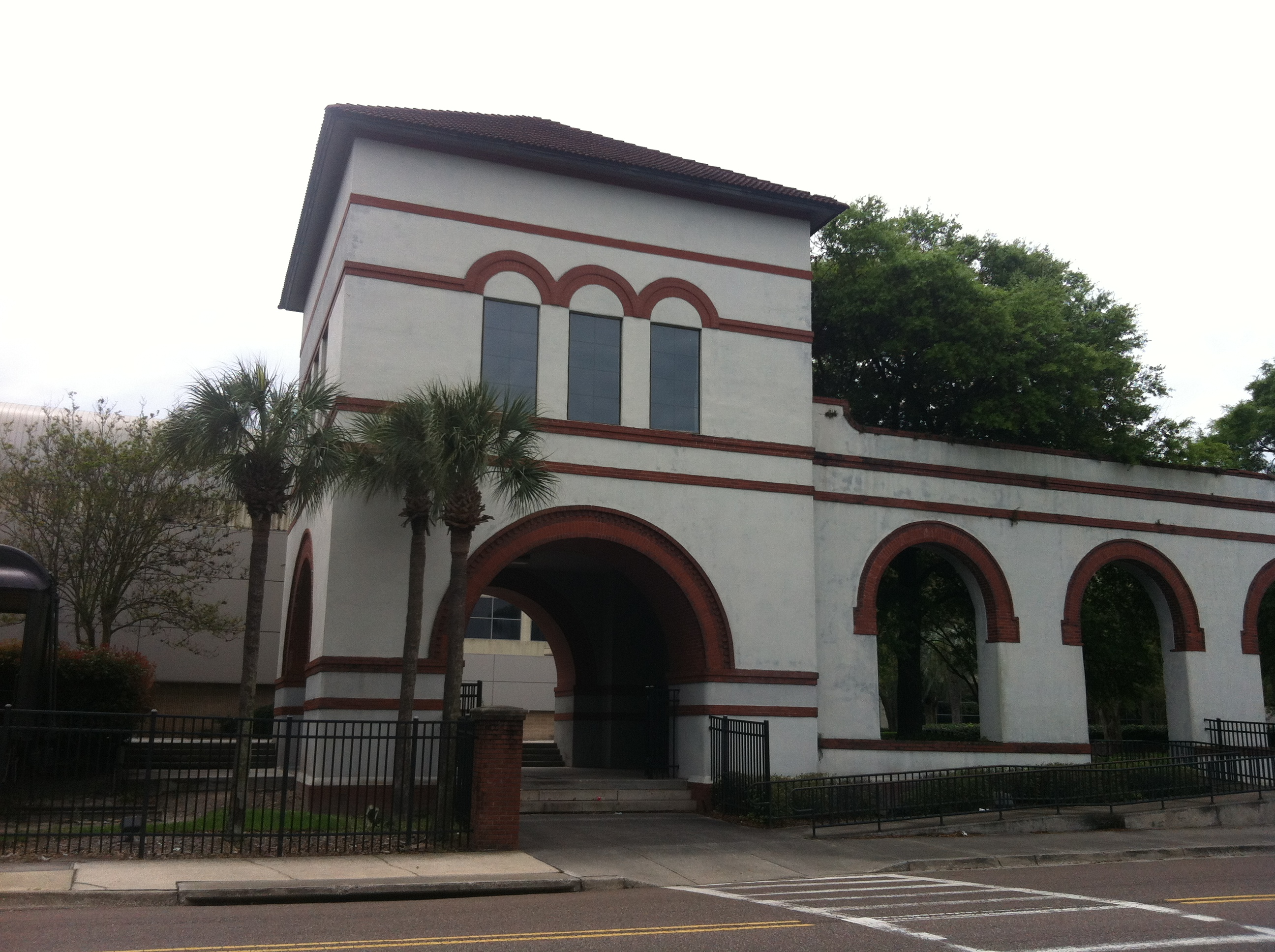 Portion of the Jacksonville Terminal Complex. This is the last remaining structure left from the original station built in 1895